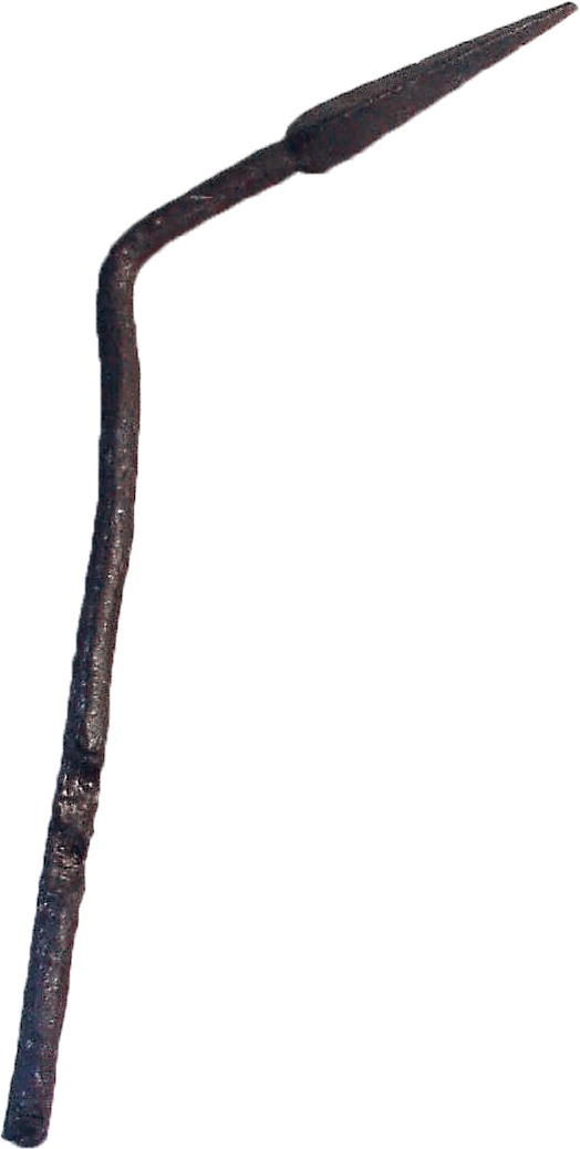 Bent pilum tip (Kempten, Germany).